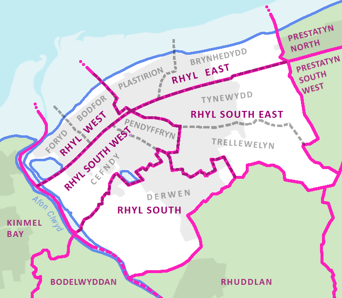 Electoral wards in the town (community) of Rhyl, Denbighshire, Wales, which elect eleven county councillors to Denbighshire County Council and twenty two town councillors to Rhyl Town Council. County wards in pink, town wards in grey. Based on election maps at and